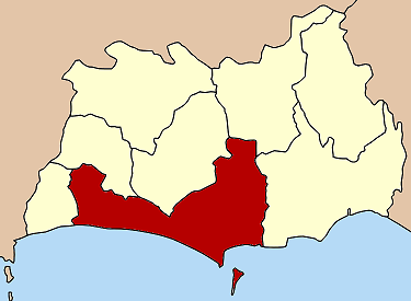 Map of Rayong province, Thailand, highlighting Amphoe Mueang Rayong.